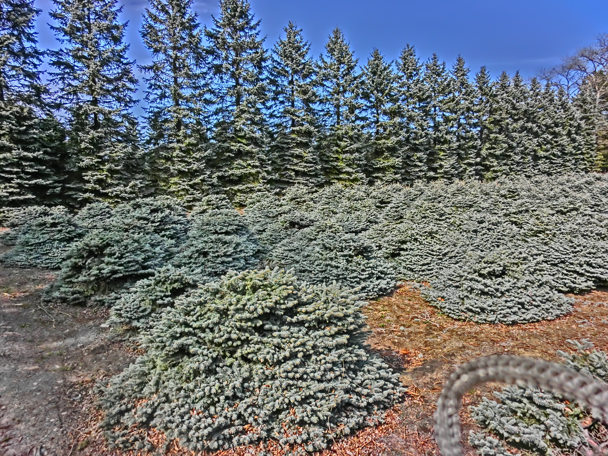 Picea pungens"Glauca Globosa"